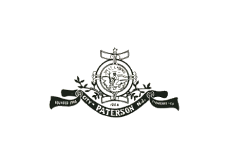 City flag for Paterson, New Jersey.